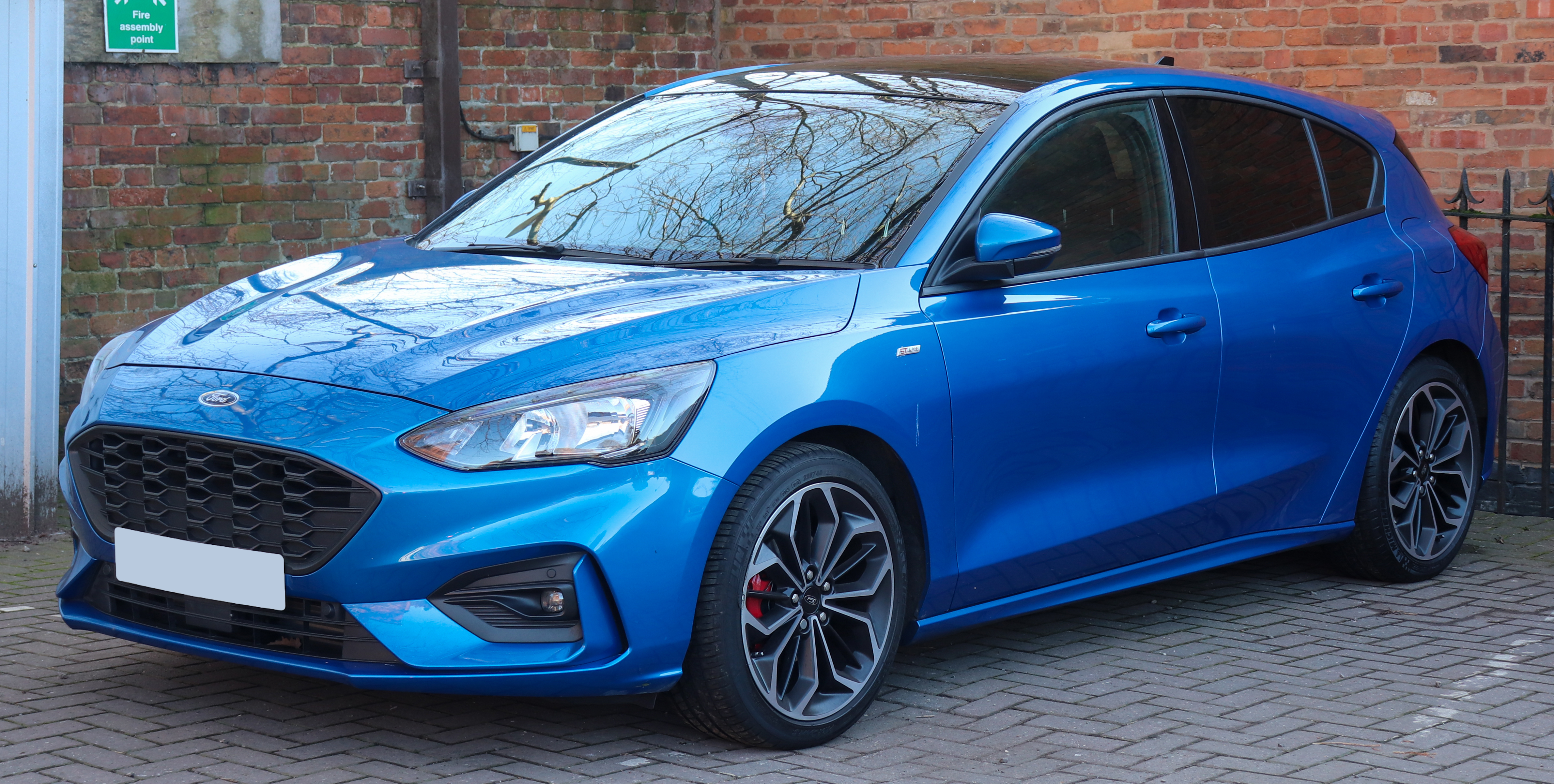 2018 Ford Focus ST-Line X 1.0 Taken in Warwick